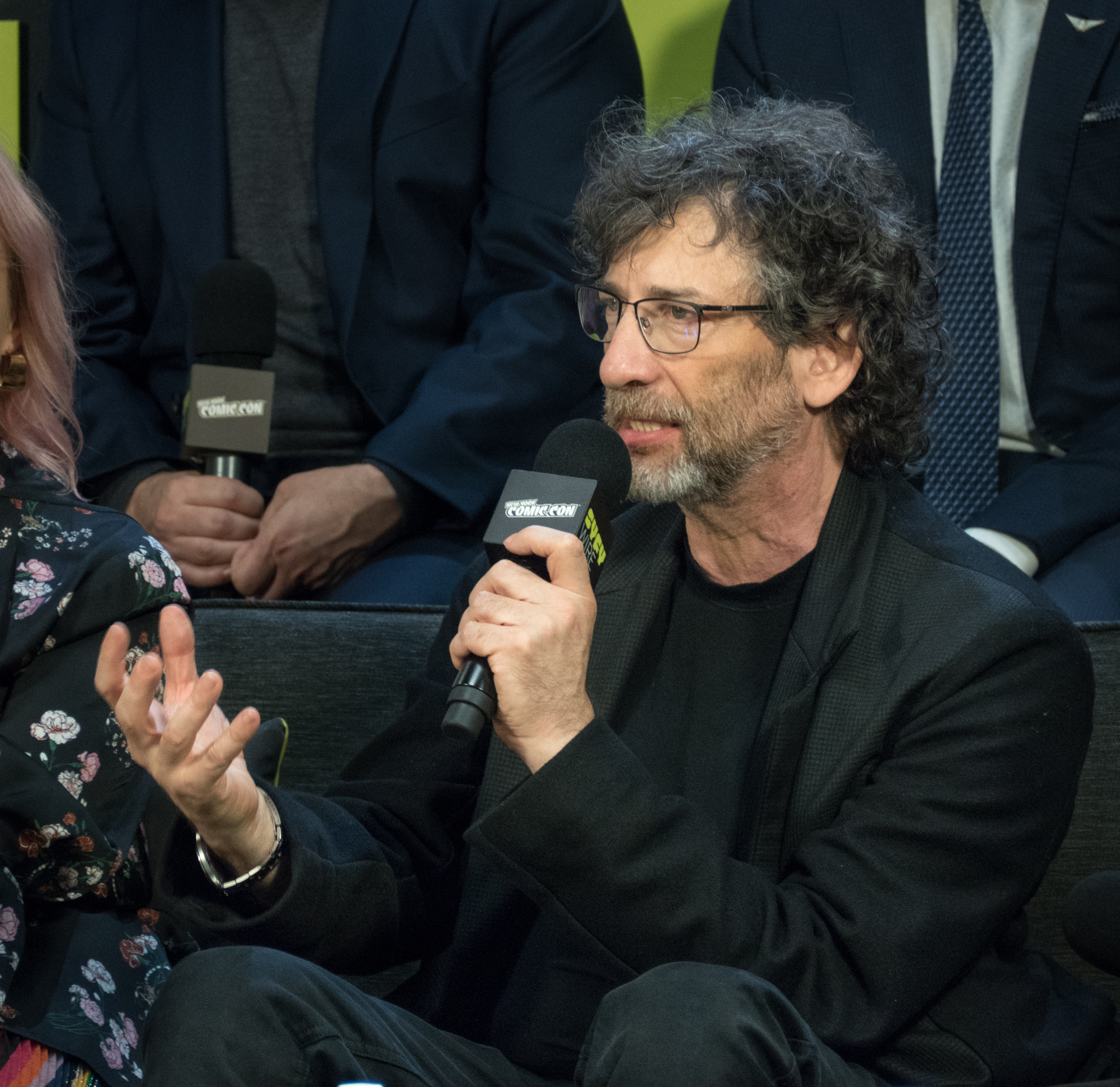 Neil Gaiman on the Good Omens panel at New York Comic Con in October 2018.